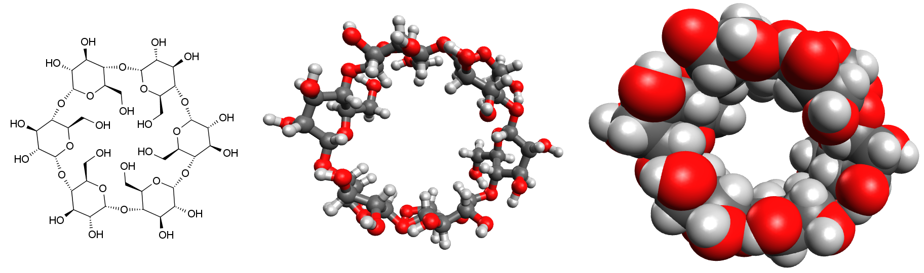 Alpha-cyclodextrine